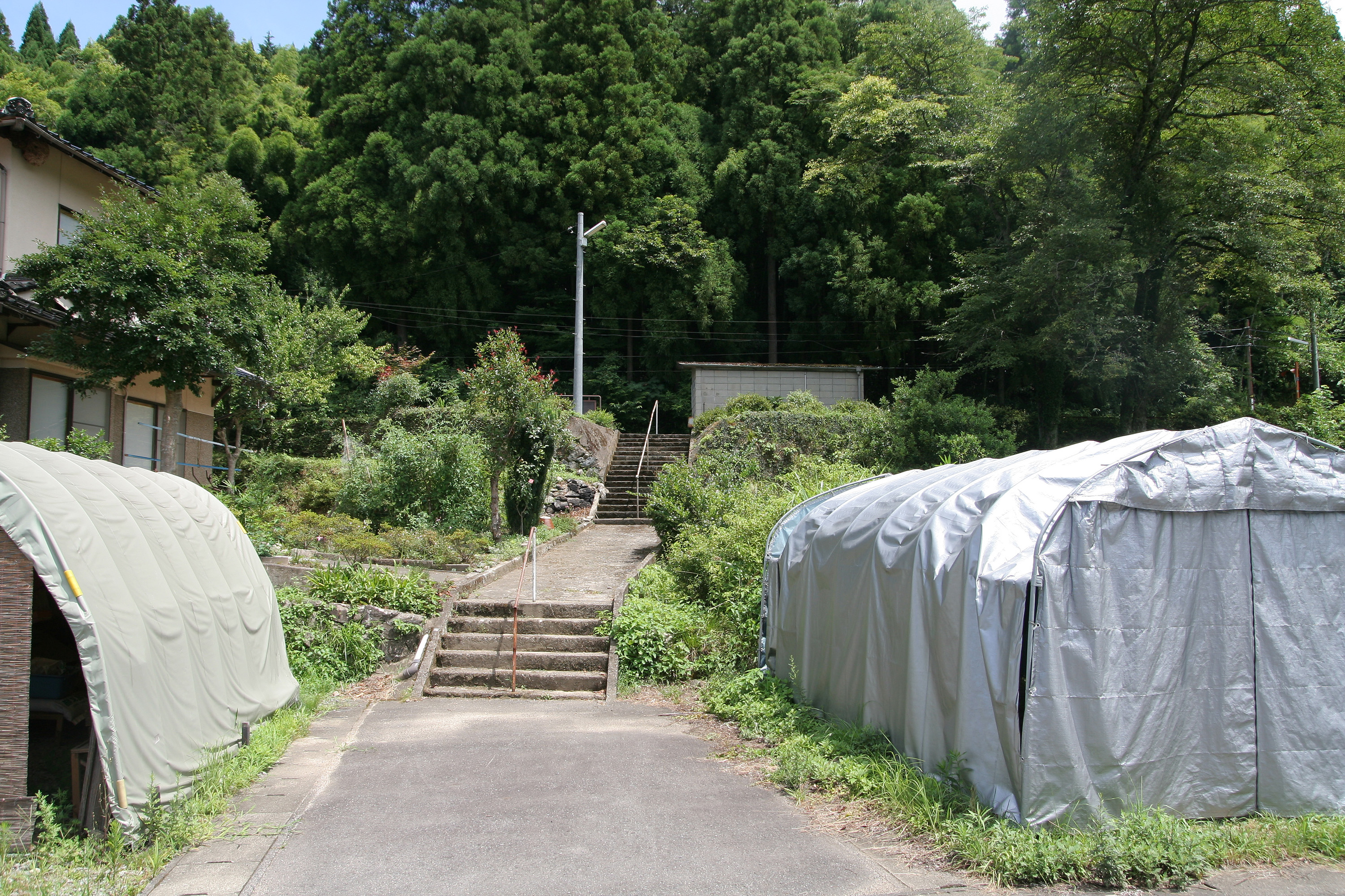 West Japan Railway Sankō Line kirohara Station